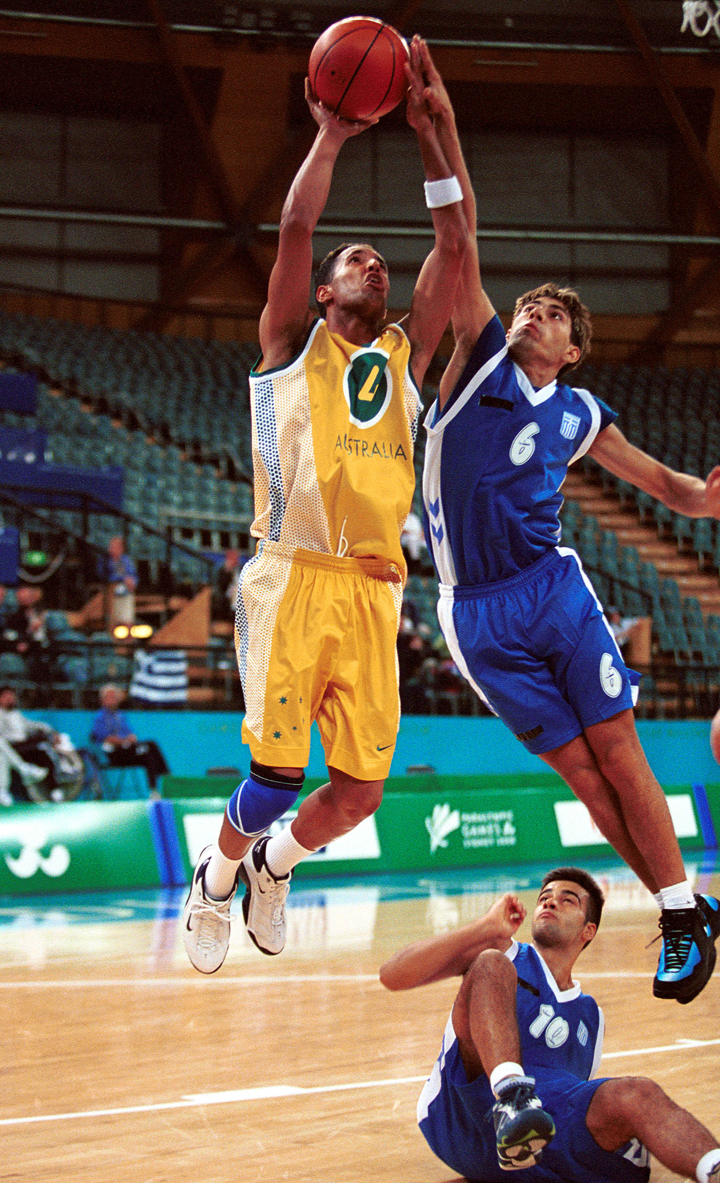 Australian ID basketballer Nicholas Maroney shoots during 2000 Sydney Paralympic Games match